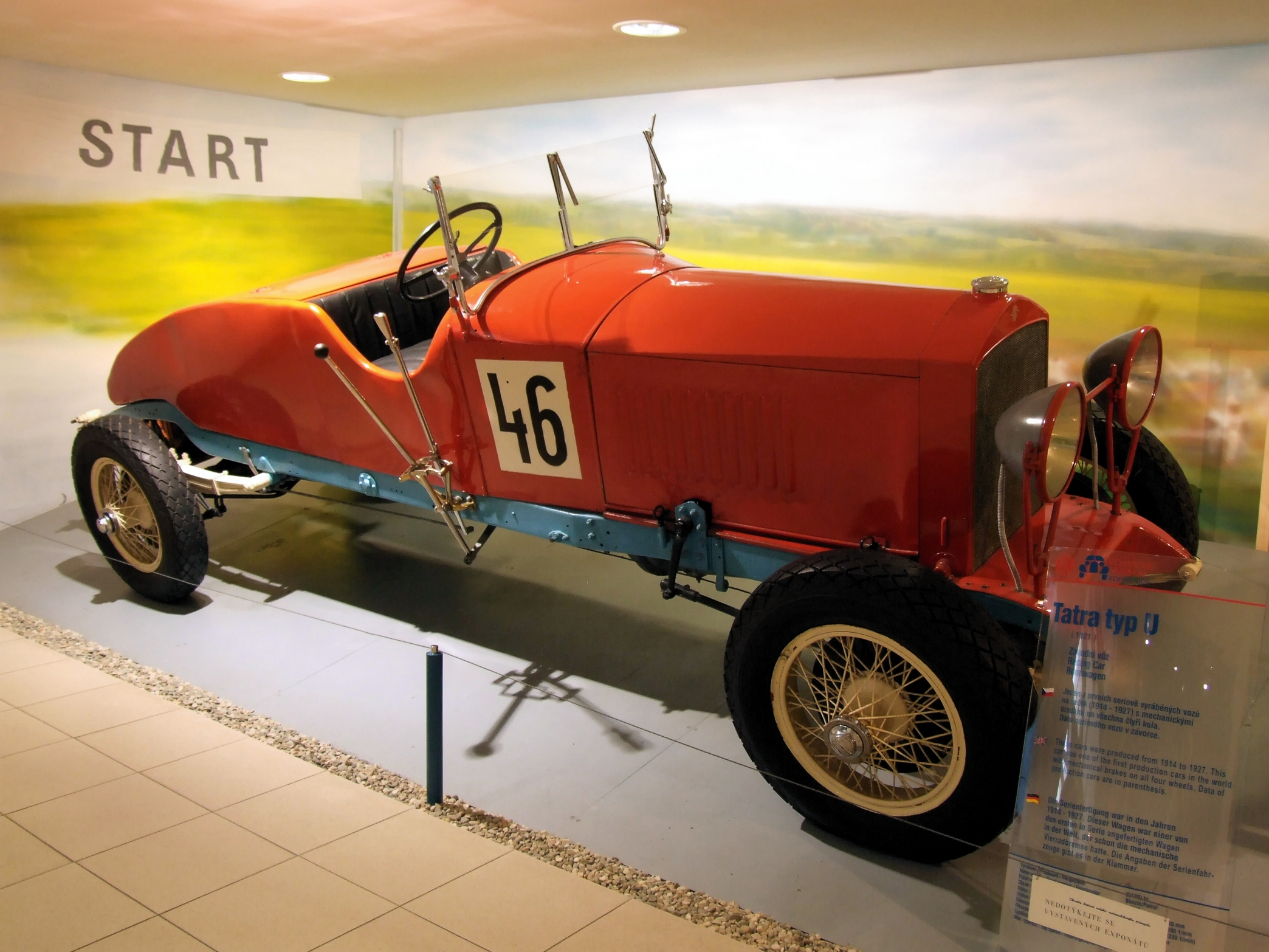 Nesselsdorf U in Kopřivnice, Czech Republic.